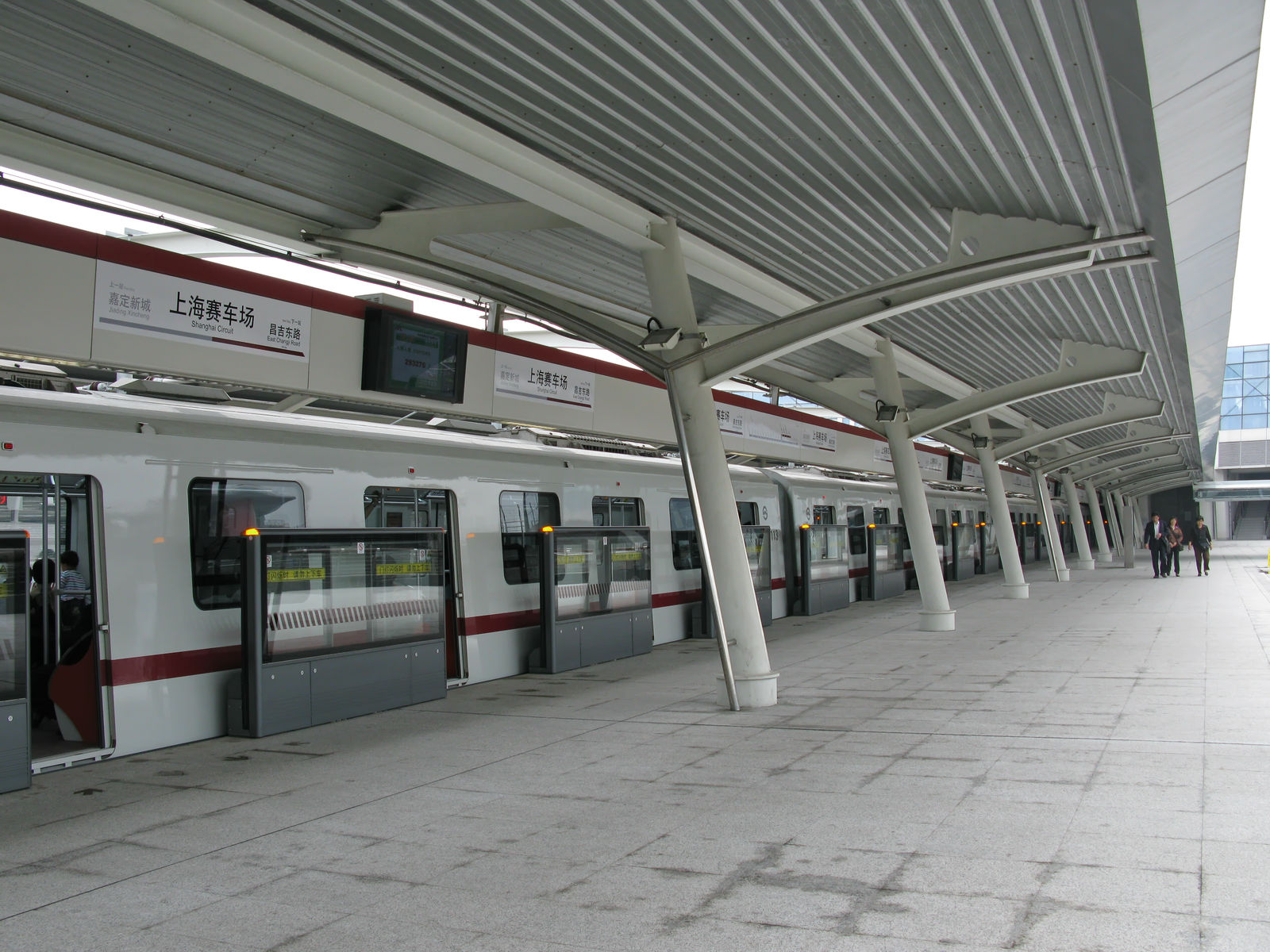 Line 11 Platform of Shanghai Circuit Station, Shanghai Metro